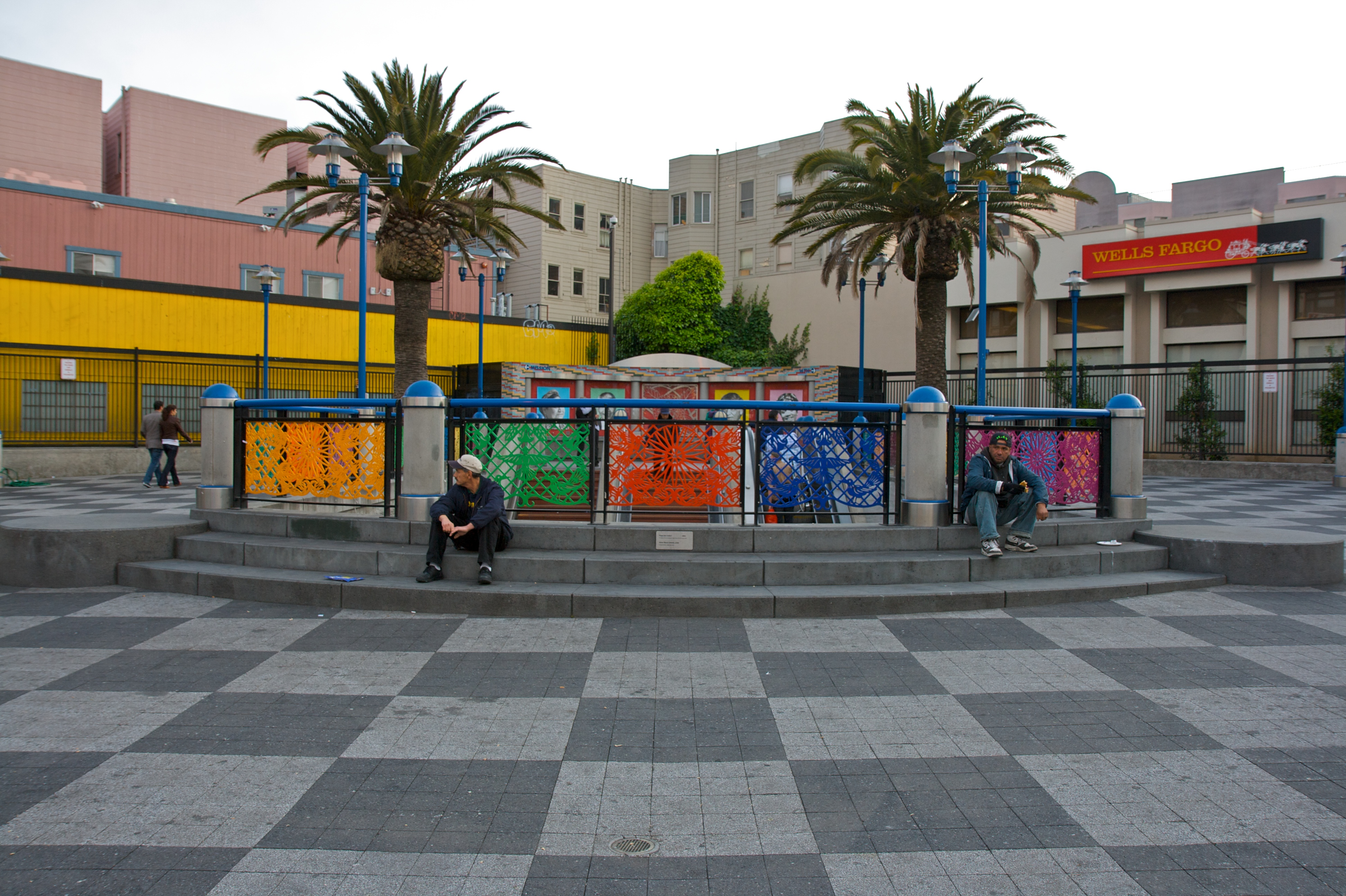 The 16th Street Mission BART station in San Francisco.